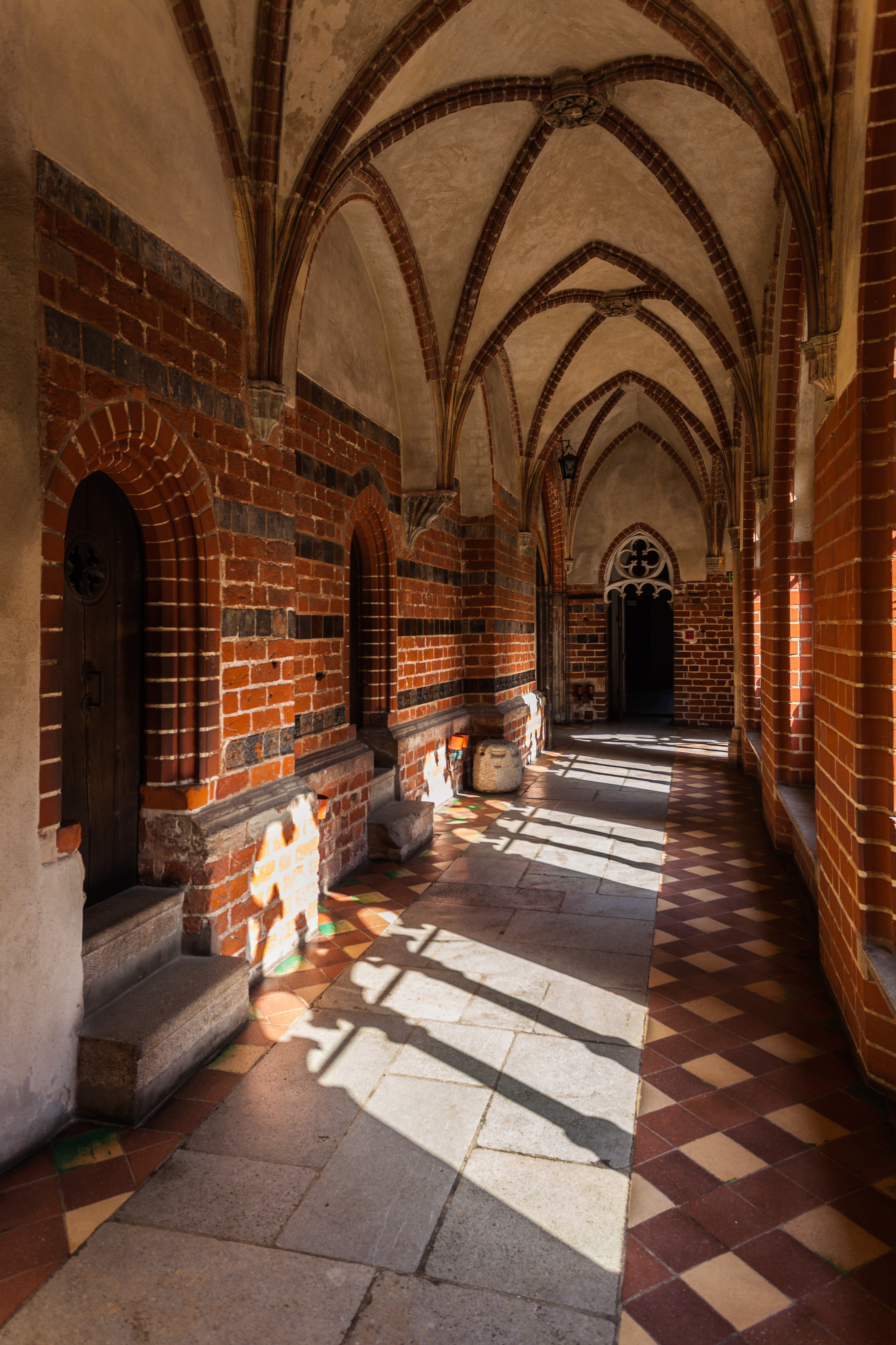 Malbork Castle, Poland